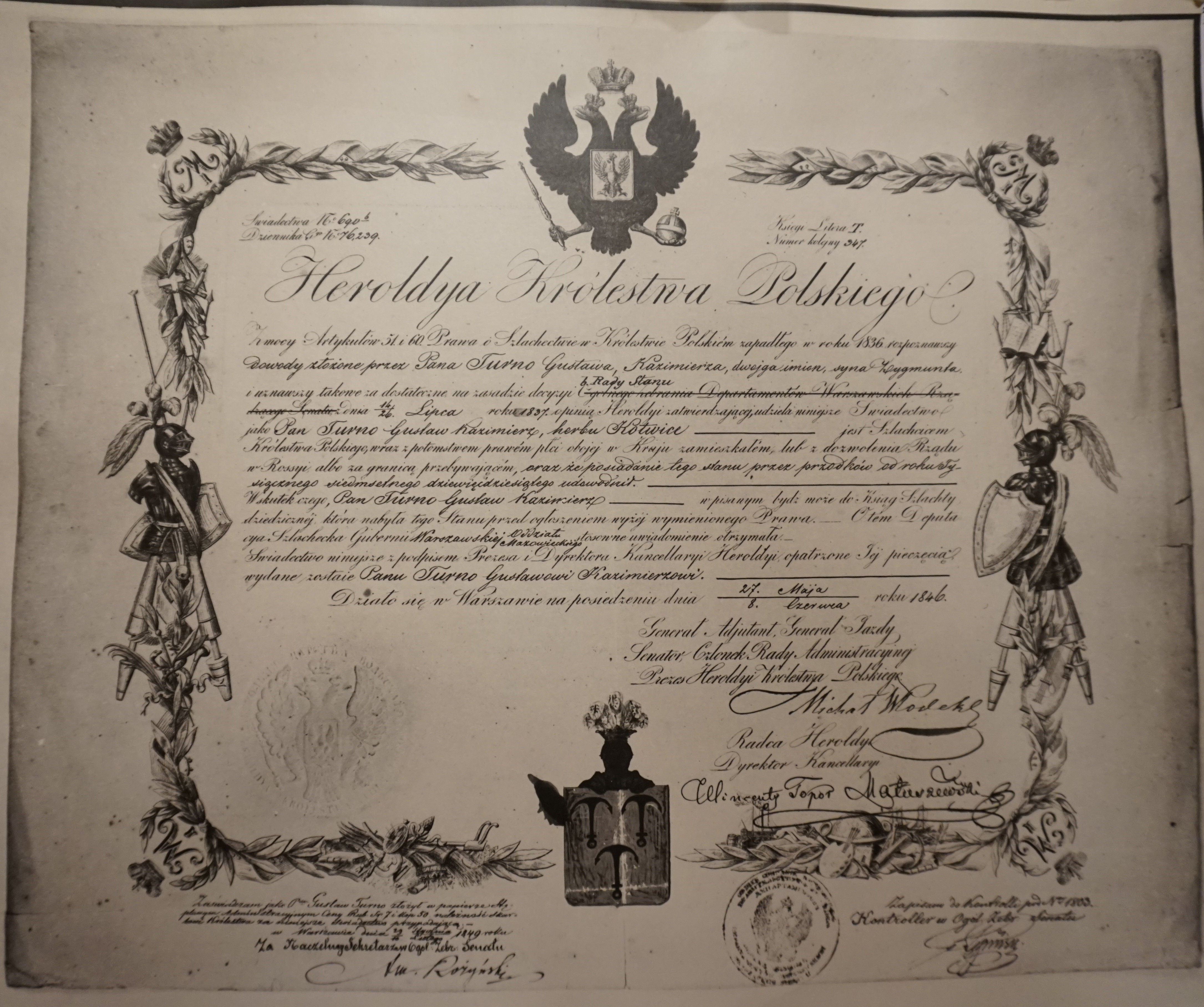 certificate of nobility of Gustaw Kazimierz Turno 1846